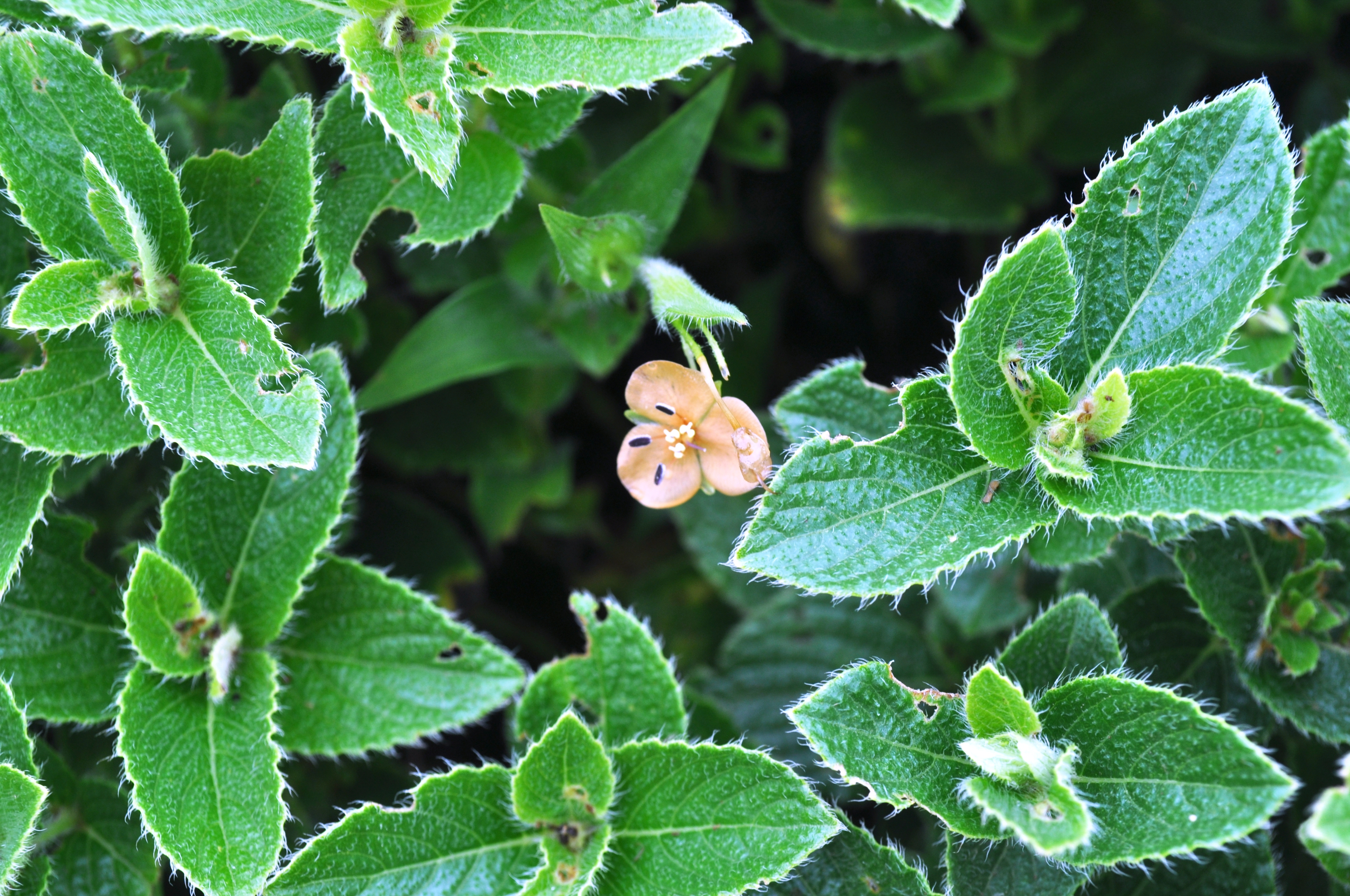 Murdannia lanuginosa at Kaas Plateau